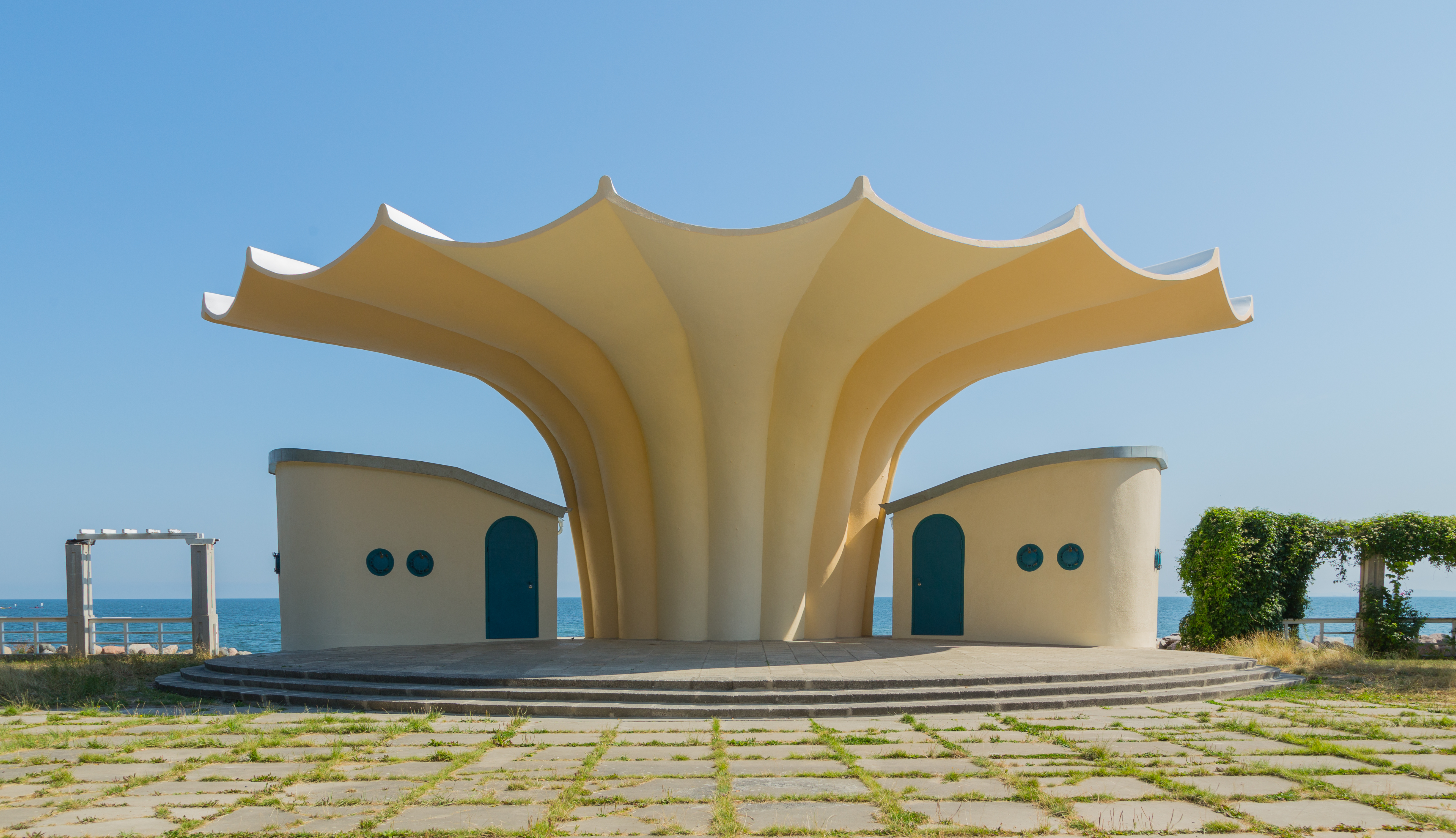 The bandshell Kurmuschel in Sassnitz, Landkreis Vorpommern-Rügen, Mecklenburg-Vorpommern, Germany. This listed cultural heritage monument is situated on the Kurplatz.